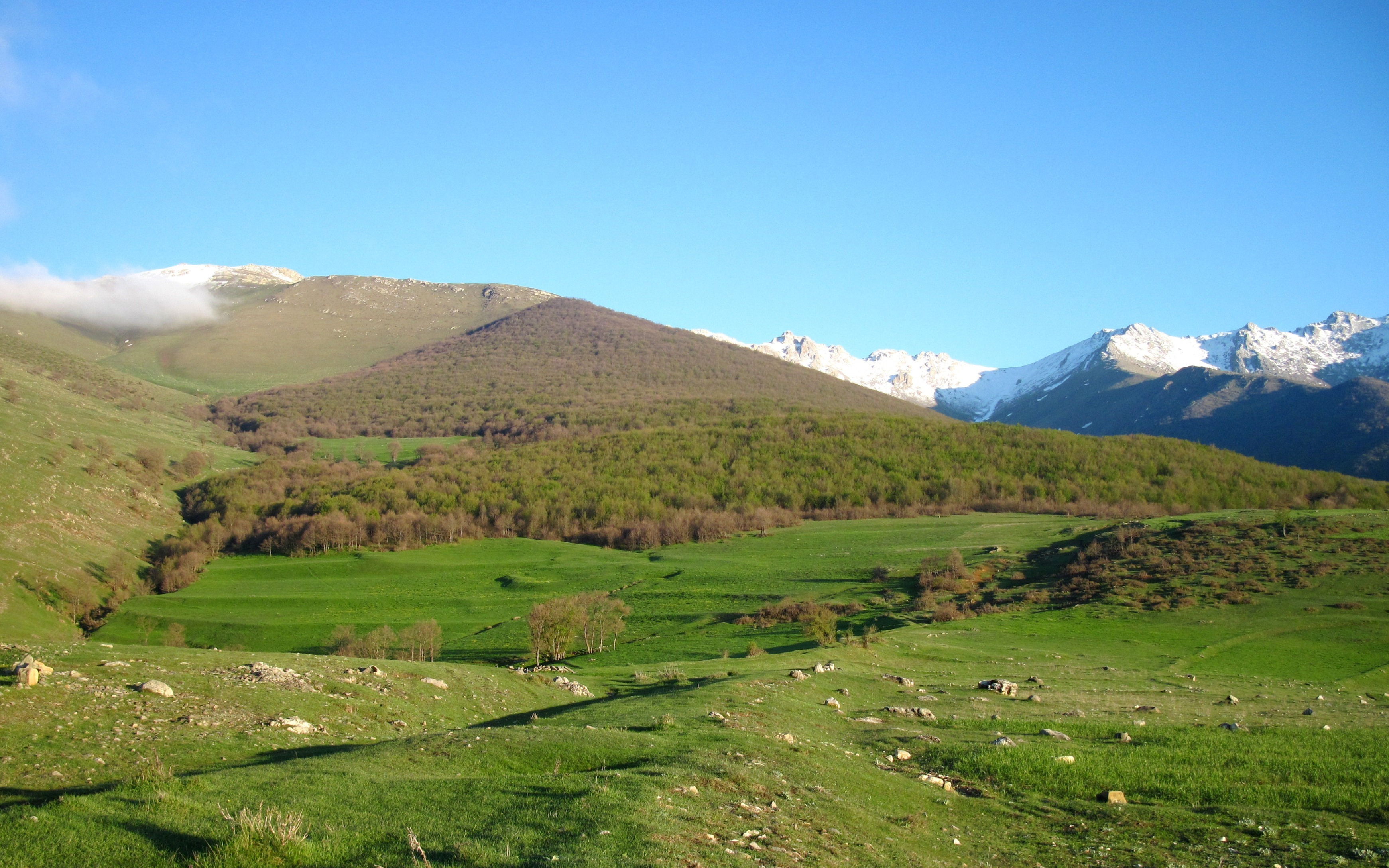 The photo presents the scenic landscape from Hejran Dust village.